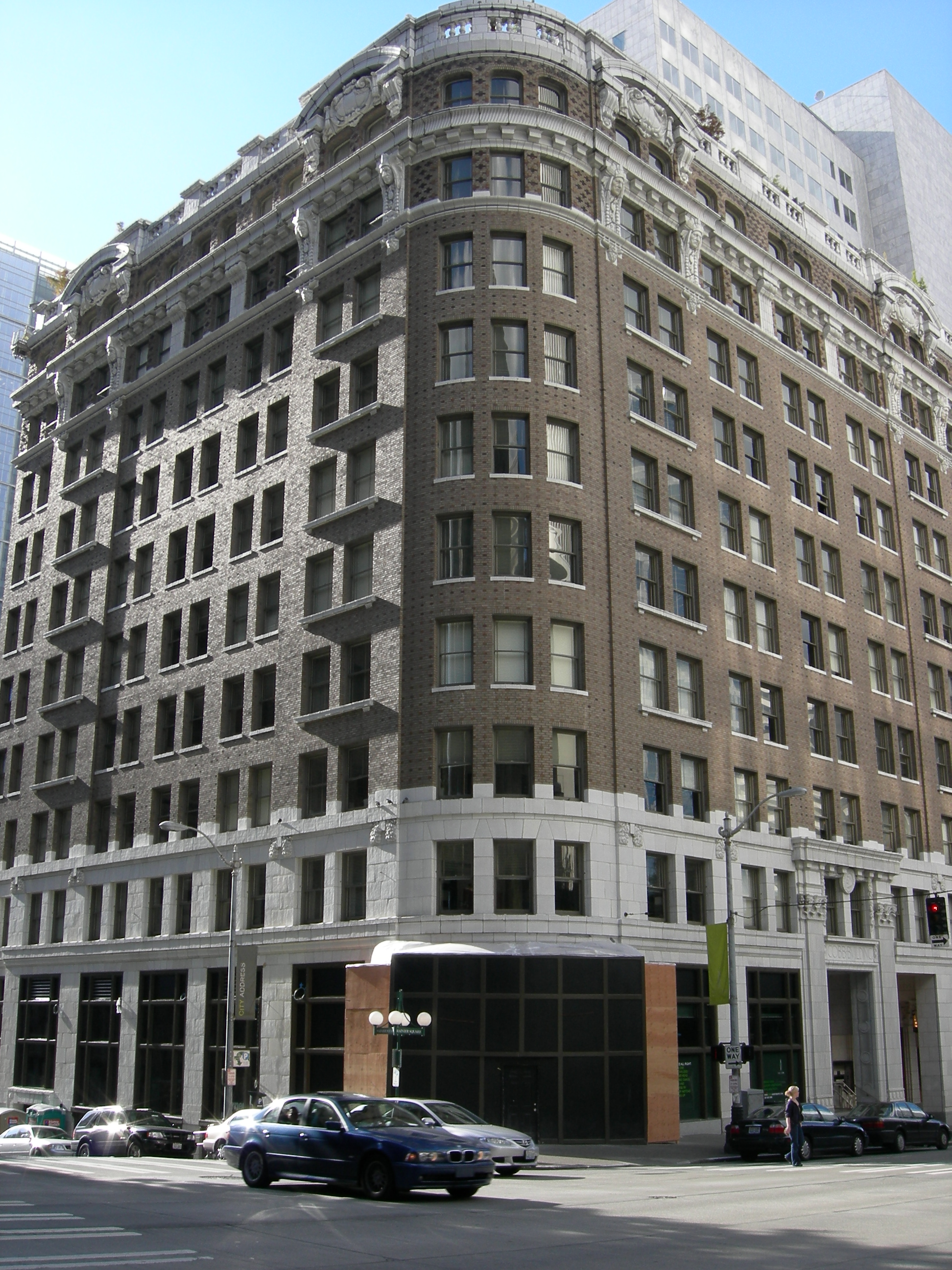 Cobb Building, 1301–1309 Fourth Avenue, Seattle, Washington, USA. The building is the only remaining building whose design conforms to the original Howells & Stokes plan for the Metropolitan Tract, the old downtown site of the University of Washington. It is on the National Register of Historic Places, ID #84003485. [1]